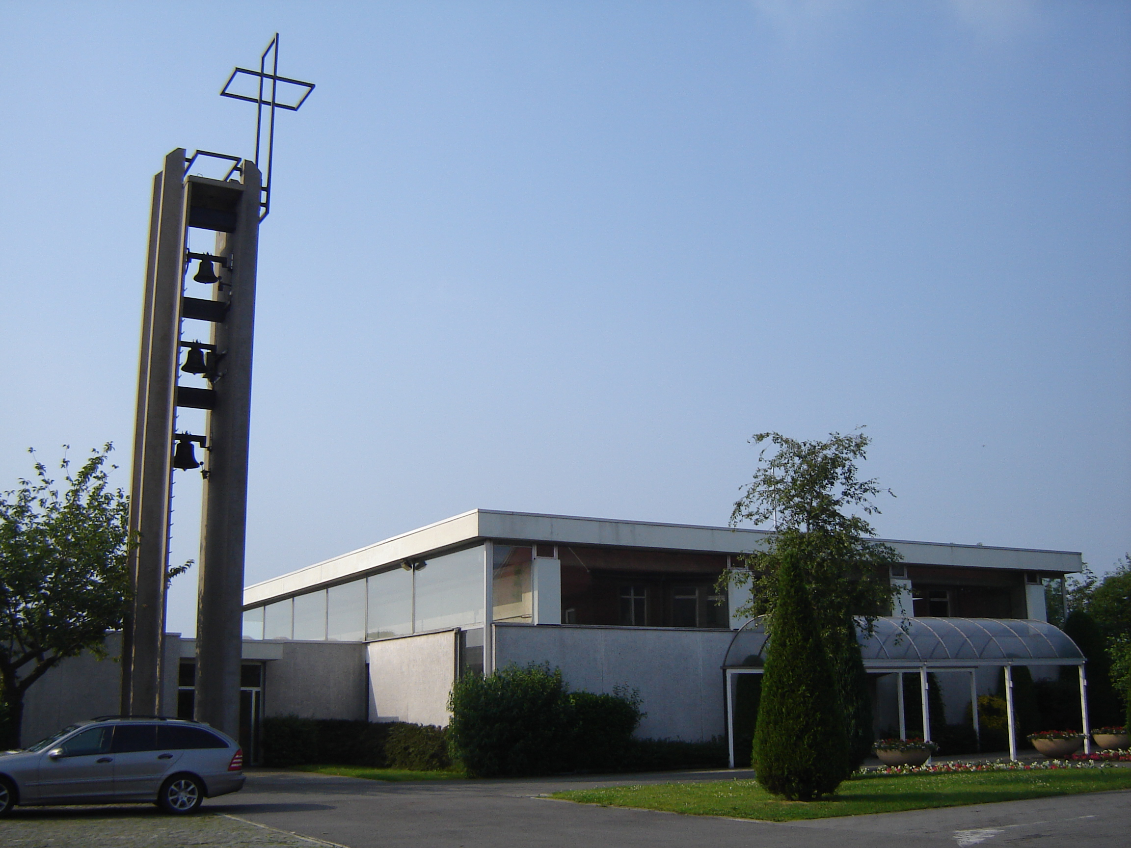 Church of Saint Joseph in the Biest quarter in Waregem. Waregem, West Flanders, Belgium